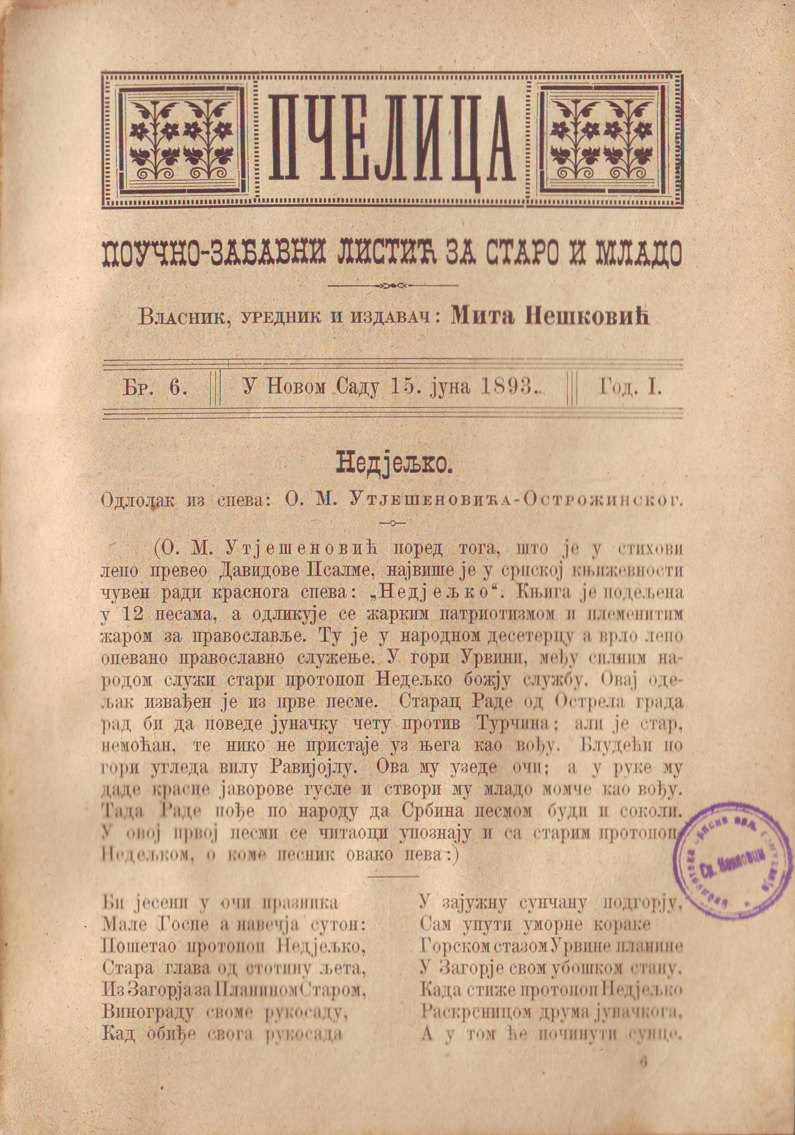 The front page of the educational and entertainment newspaper Pčelica for 15 June 1893. Srpski (latinica): Naslovna strana izdanja poučno-zabavnog lista Pčelica za 15. jun 1893. godine.